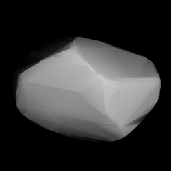 3D convex shape model of 1220 Crocus, computed using light curve inversion techniques. J. Hanuš, J. Ďurech, M. Brož, B. D. Warner (June 2011). "A study of asteroid pole-latitude distribution based on an extended set of shape models derived by the lightcurve inversion method". Astronomy and Astrophysics 530: A134. ISSN 0004-6361. arXiv